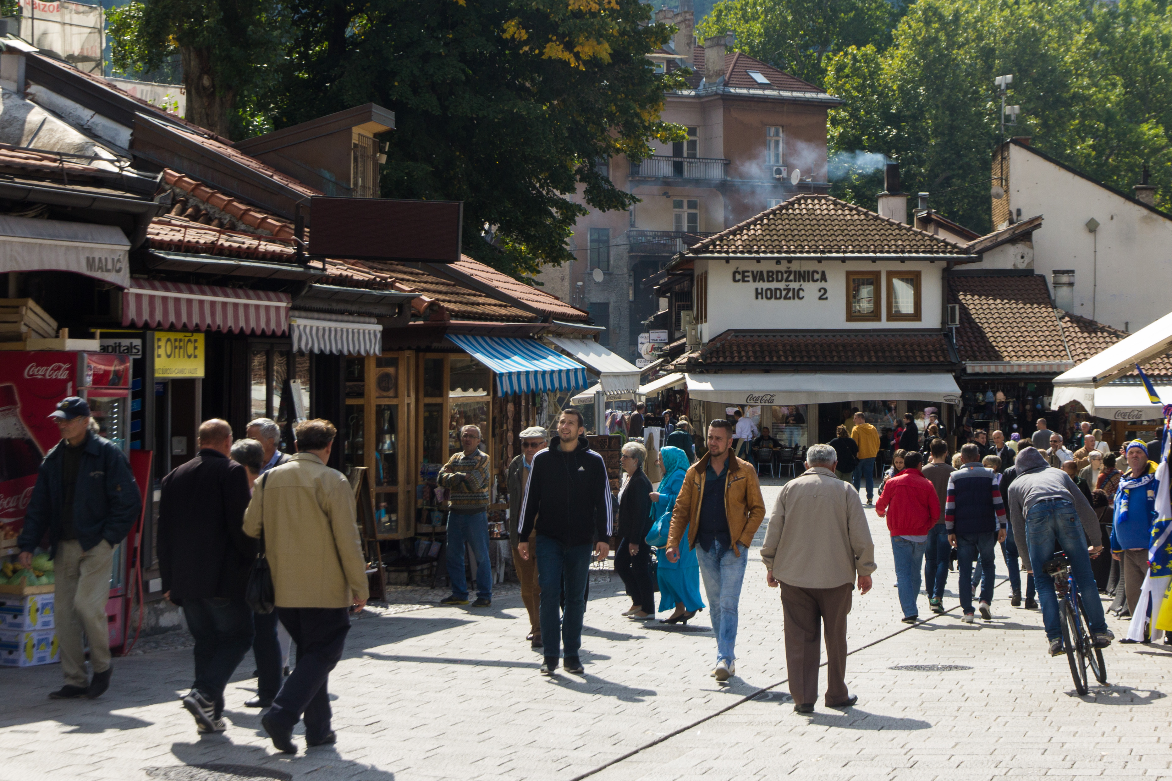 Sarajevo, September, 2017